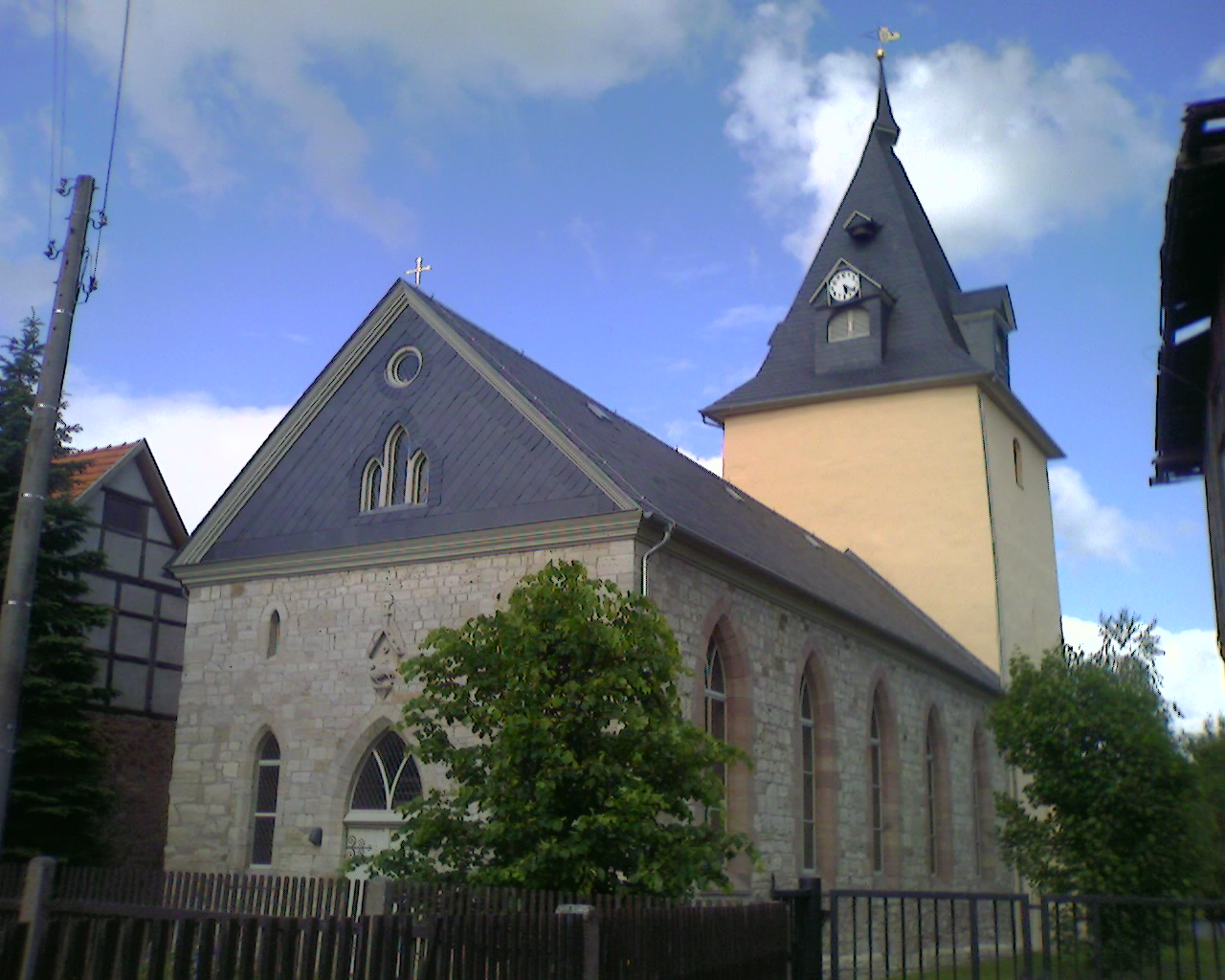 St. Crucis - Church in Schernberg, Germany